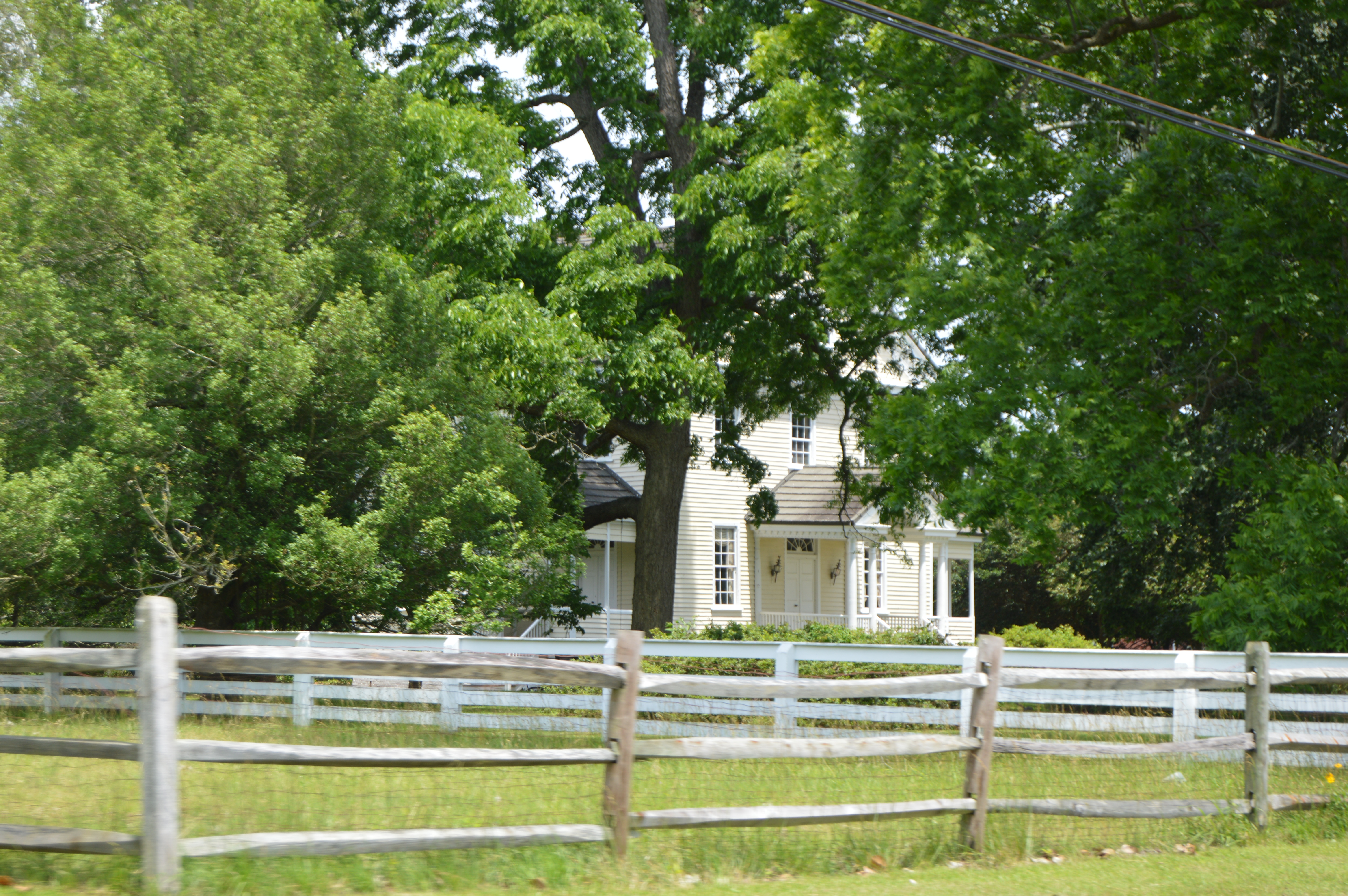 Front of the Morgan House, located on Northside Road just south of South Mills in Pasquotank County, North Carolina, United States. Built in 1826, it is listed on the National Register of Historic Places.